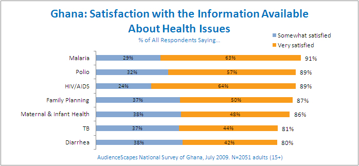 Ghana satisfaction with health care and health information statistics chart.